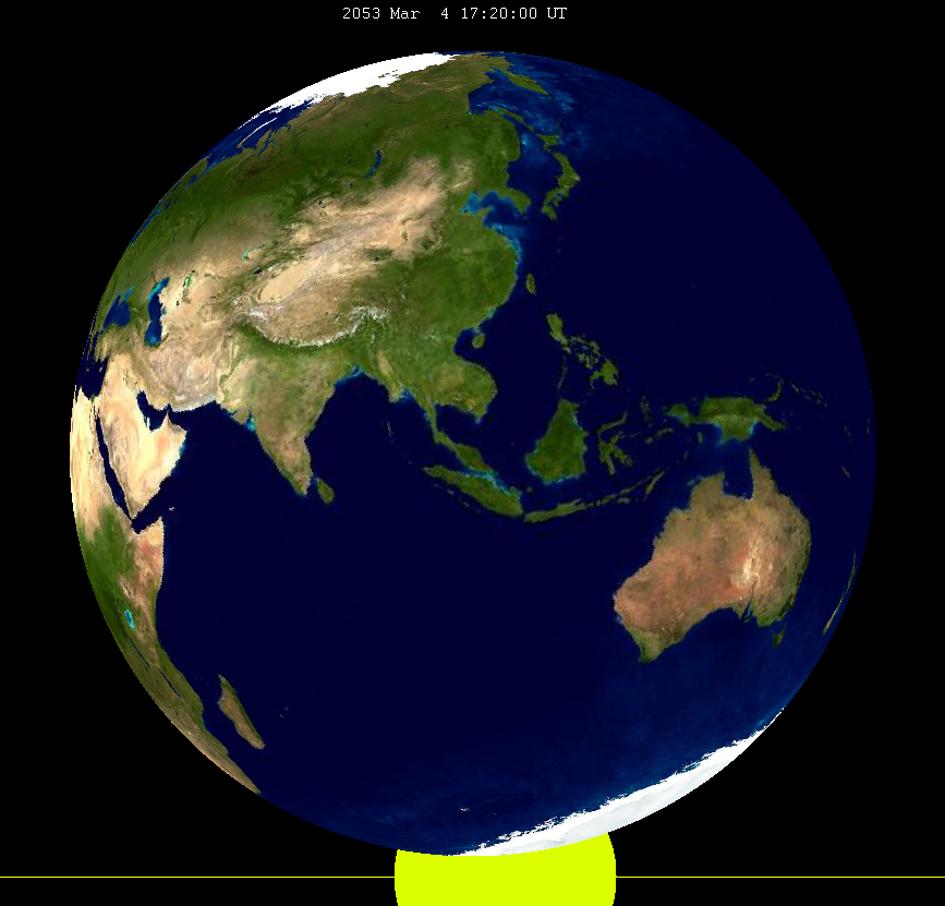 March 2053_lunar_eclipse view of earth The orientation of the earth as viewed from the center of the moon during greatest eclipse. thumb